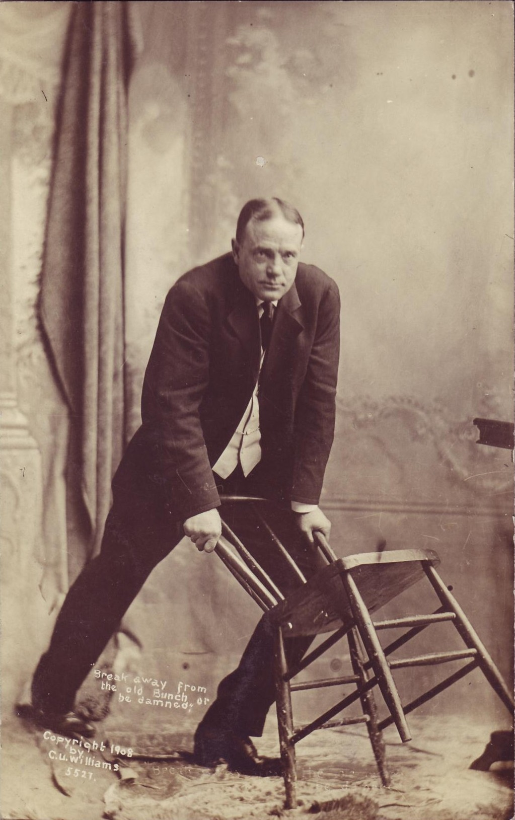 Billy Sunday (1861-1935)